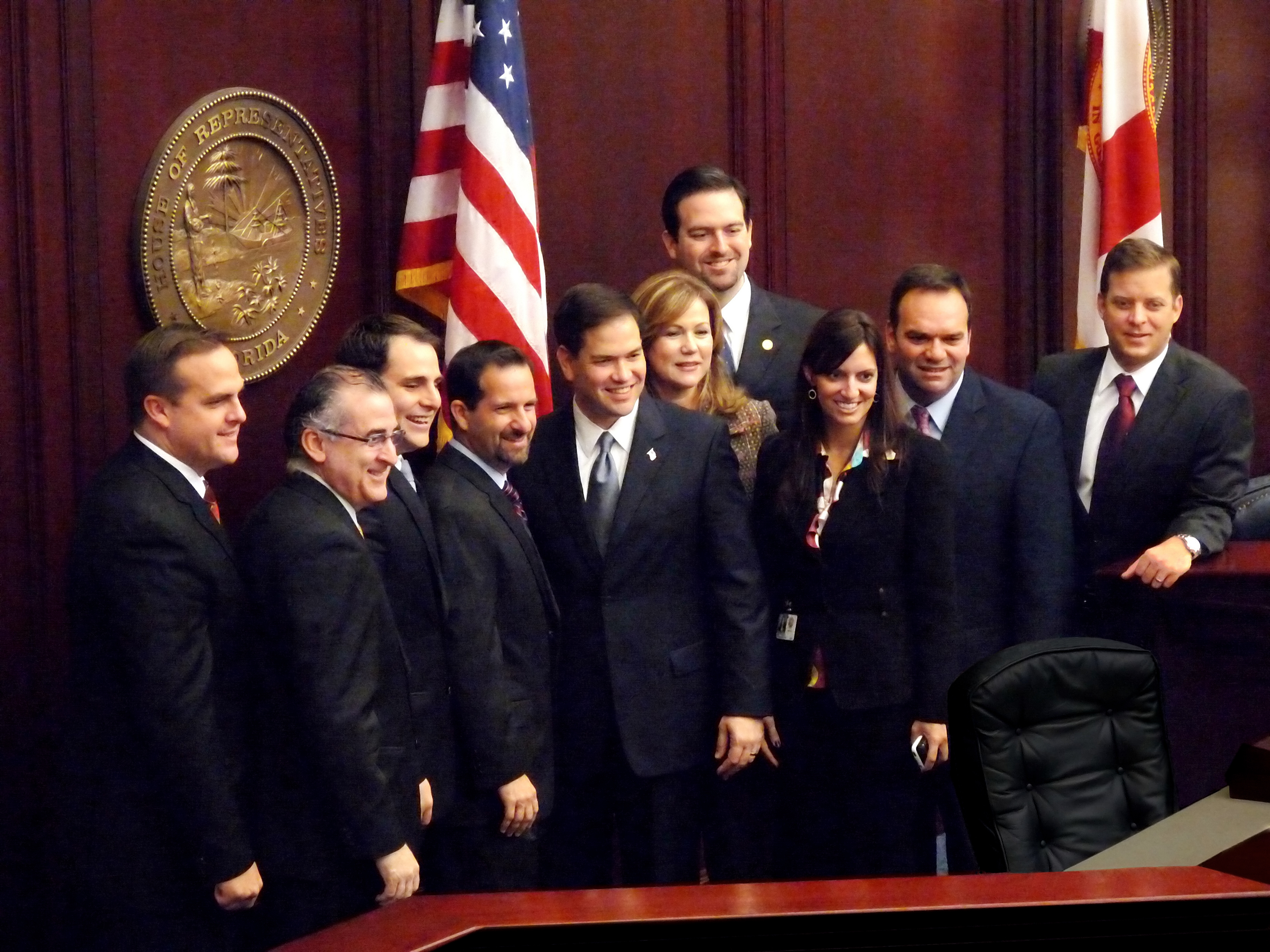 Republican Hispanic caucus members join U.S. Senator Marco Rubio at the rostrum after he addressed the Republican Conference, February 23, 2011. From the left, Rep. Frank Artiles, R-Miami; Rep. Esteban L. Bovo, Jr., R-Hialeah; Rep. Carlos Trujillo, R-Miami; Rep. Michael Bileca, R-Miami; U.S. Senator Marco Rubio; Rep. Ana Rivas Logan, R-Miami-Dade; Rep. Jose Felix Diaz, R-Miami; Rep. Jeanette M. Nuñez, R-Miami; Rep. Eduardo “Eddy” Gonzalez, R-Hialeah; Majority Leader Carlos Lopez-Cantera, R-Miami.